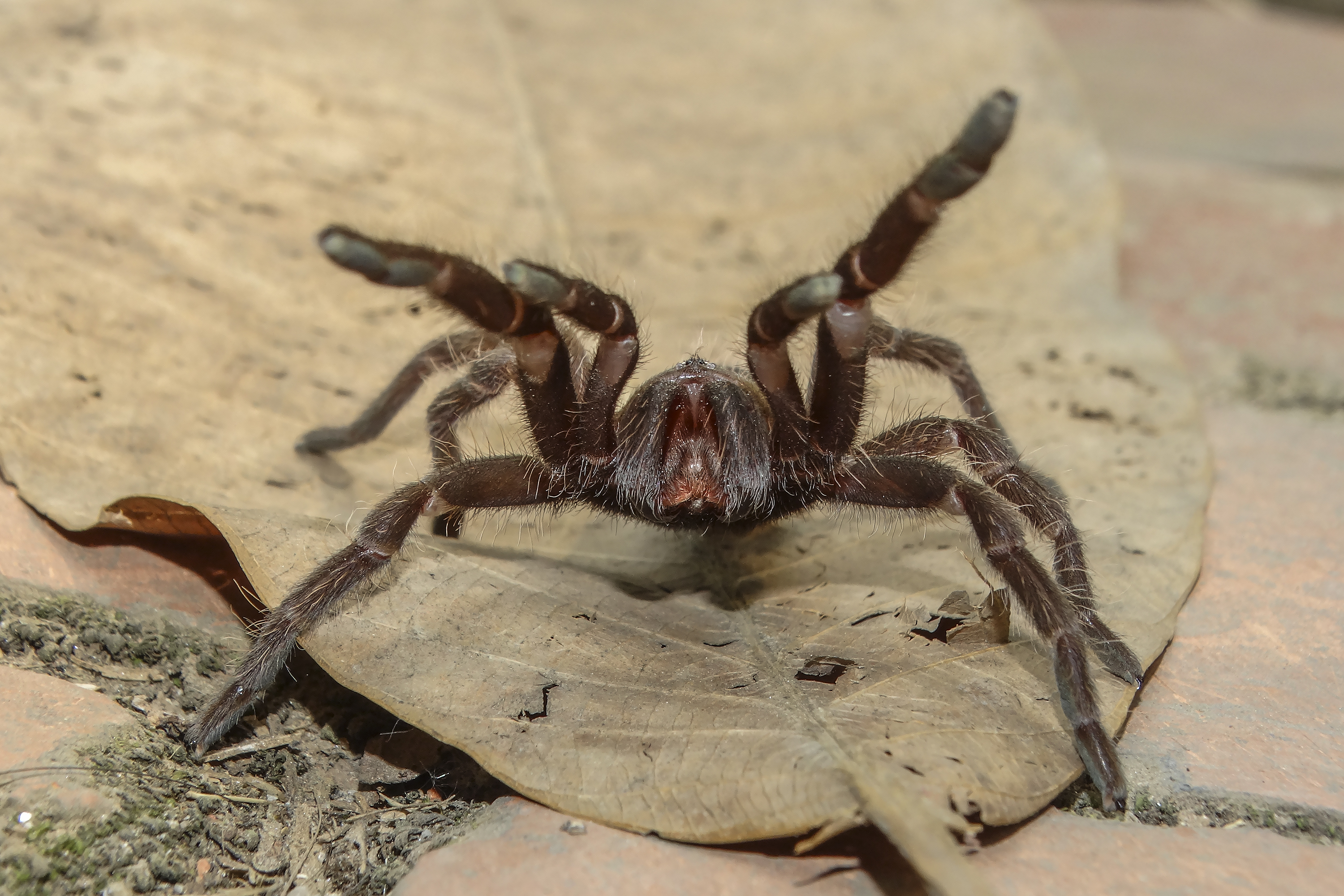 A tarantula is in attacking mood in National Botanical Garden of Bangladesh. Cyriopagopus is a genus of spiders in the family. Theraphosidae (tarantulas) found in Southeast Asia. As of March 2017, the genus includes species formerly placed in Haplopelma.